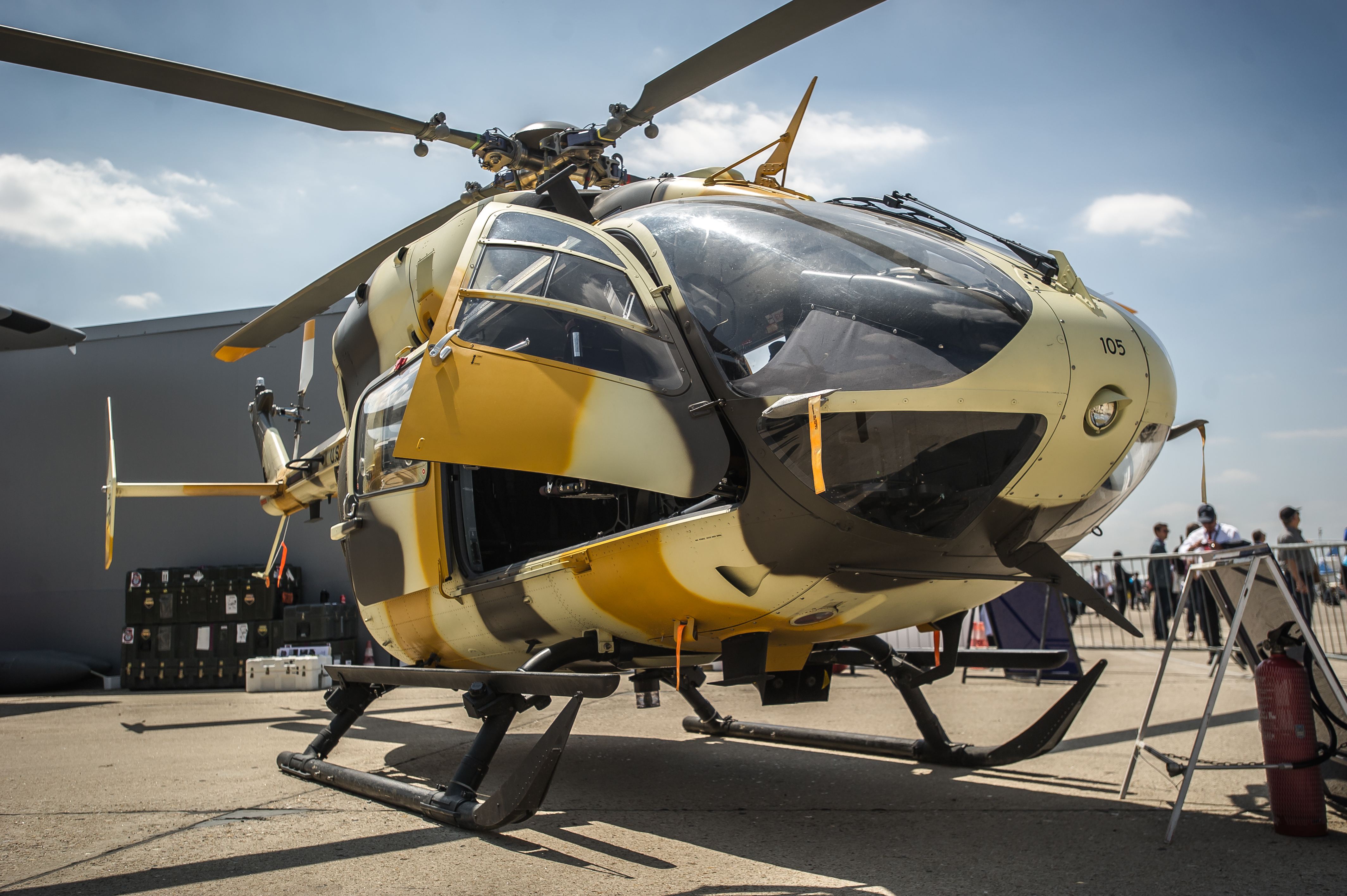 US Army Eurocopter UH-72 Lakota, reg. 09-72105 150617-F-RN211-040 Paris Air Show 2015.